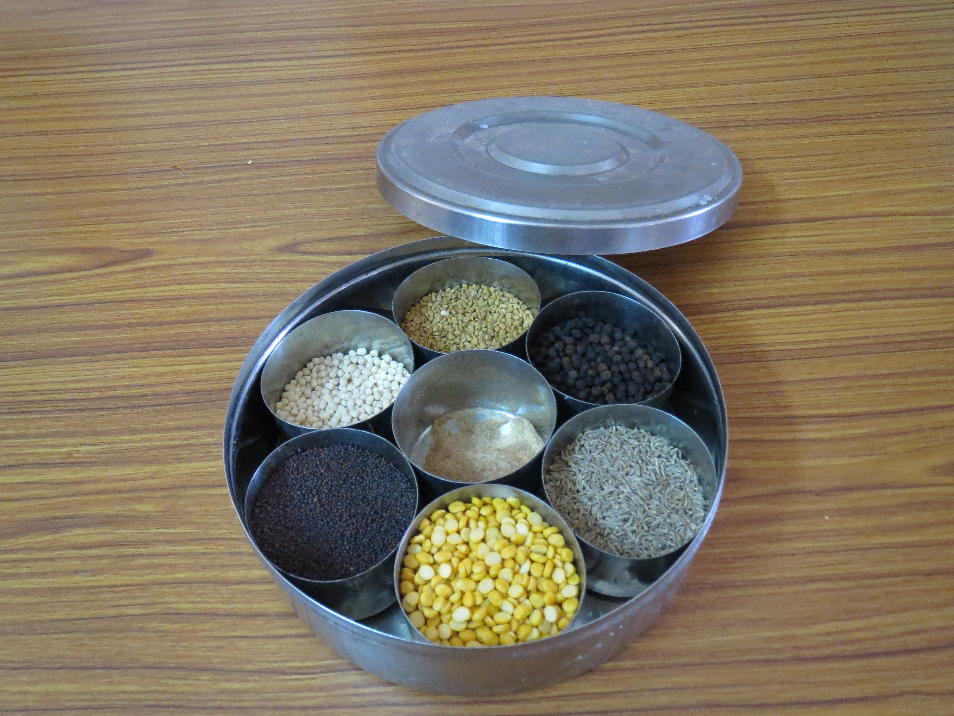 This metal box with seven small boxes is a grocery container. It is commonly seen in kitchens (Tamil nadu, India). Old type of grocery box made in wood and called as anjarai petti is now replaced by this box. Tamil:அஞ்சறைப் பெட்டி (அ) செலவுப் பெட்டி (கோயம்புத்தூர் வட்டார வழக்கு)